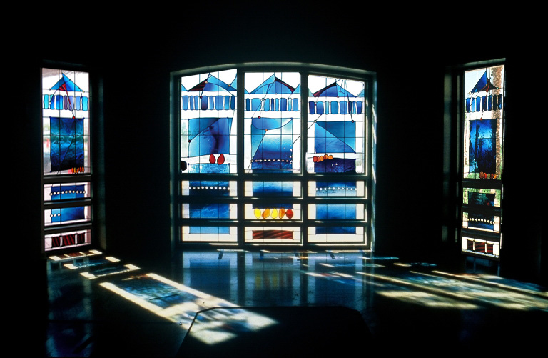 Peter Mollica, Catherine of Siena Chapel (2000), commissioned work